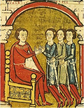 Count Gilabert II of Roussillon receives the tribute of Peter Oliver and his men for the castles of Salses. The three knights bow before the seated figure of the Count, their hands joined as a sign of submission.e